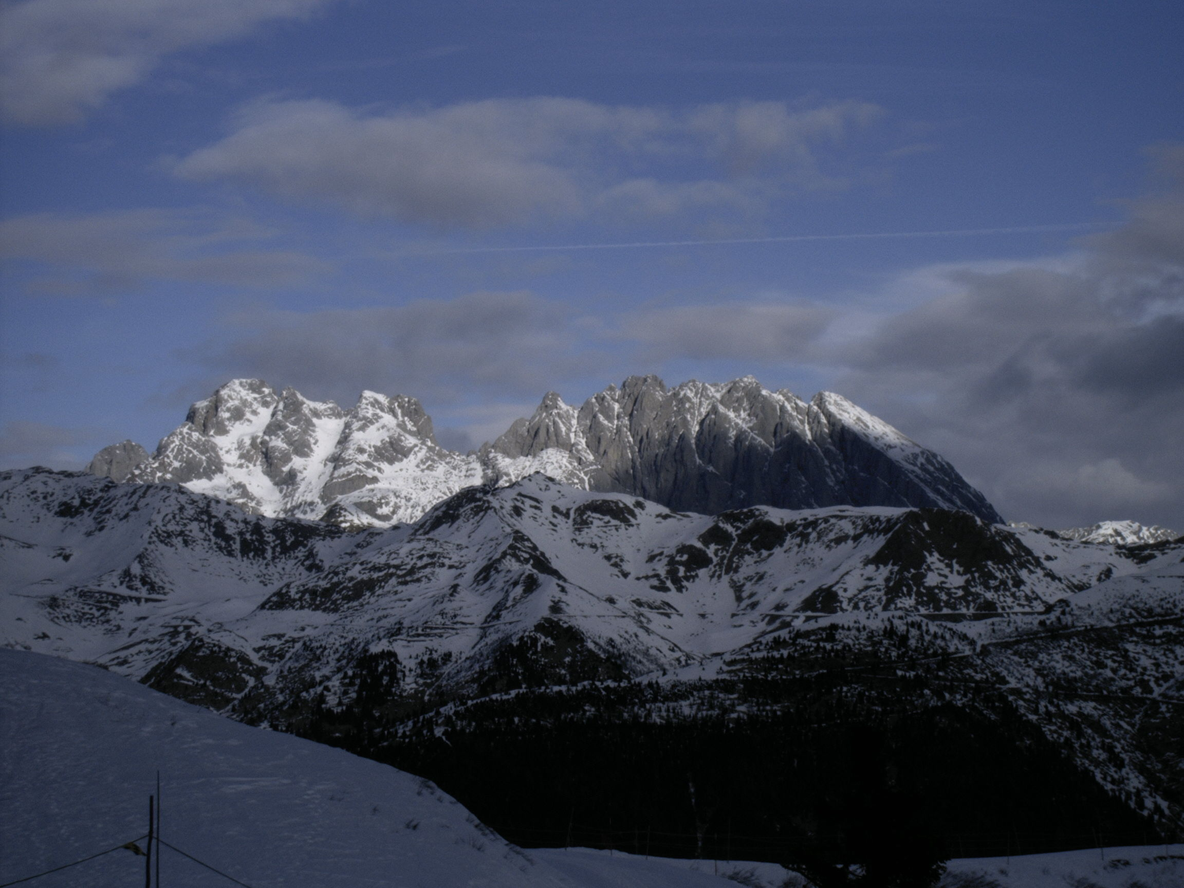 Monte Coglians (de: Hohe Warte): view from monte Zoncolan (Italy) The Monte Coglians is on the border of Italy with Austria.